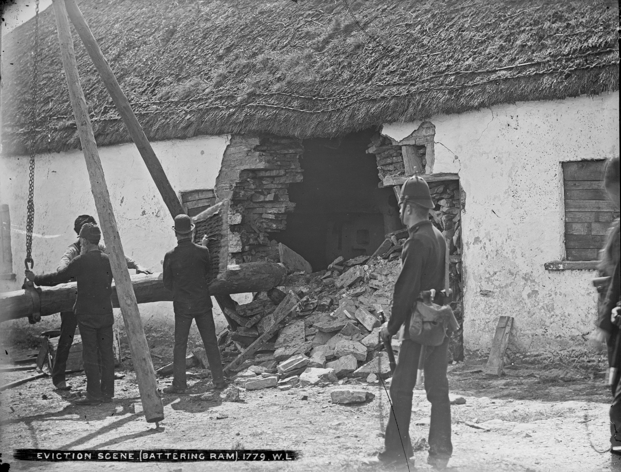 If you are researching our Eviction photos the notes on this particular photo include summaries of the results of all the findings / research of the NLI flickr community. Particular thanks to the folllowing for their contributions, [/photos/beachcomberaustralia/ beachcomberaustralia] [/photos/91549360@N03/ O Mac] [/photos/79549245@N06/ DannyM8] [/photos/129555378@N07/ sharon.corbet] We have a few photographs which we had readied for the Tríd an Lionsa program. We felt that we would not get the opportunity to post them in the normal course, therefore we have decided to post a number of them over the holiday period. We hope you enjoy them and as always we welcome your comments and observations. Photographer: Robert French Collection: The Lawrence Photograph Collection Date: Circa July 1888 NLI Ref: L_ROY_01779 You can also view this image, and many thousands of others, on the NLI’s catalogue at